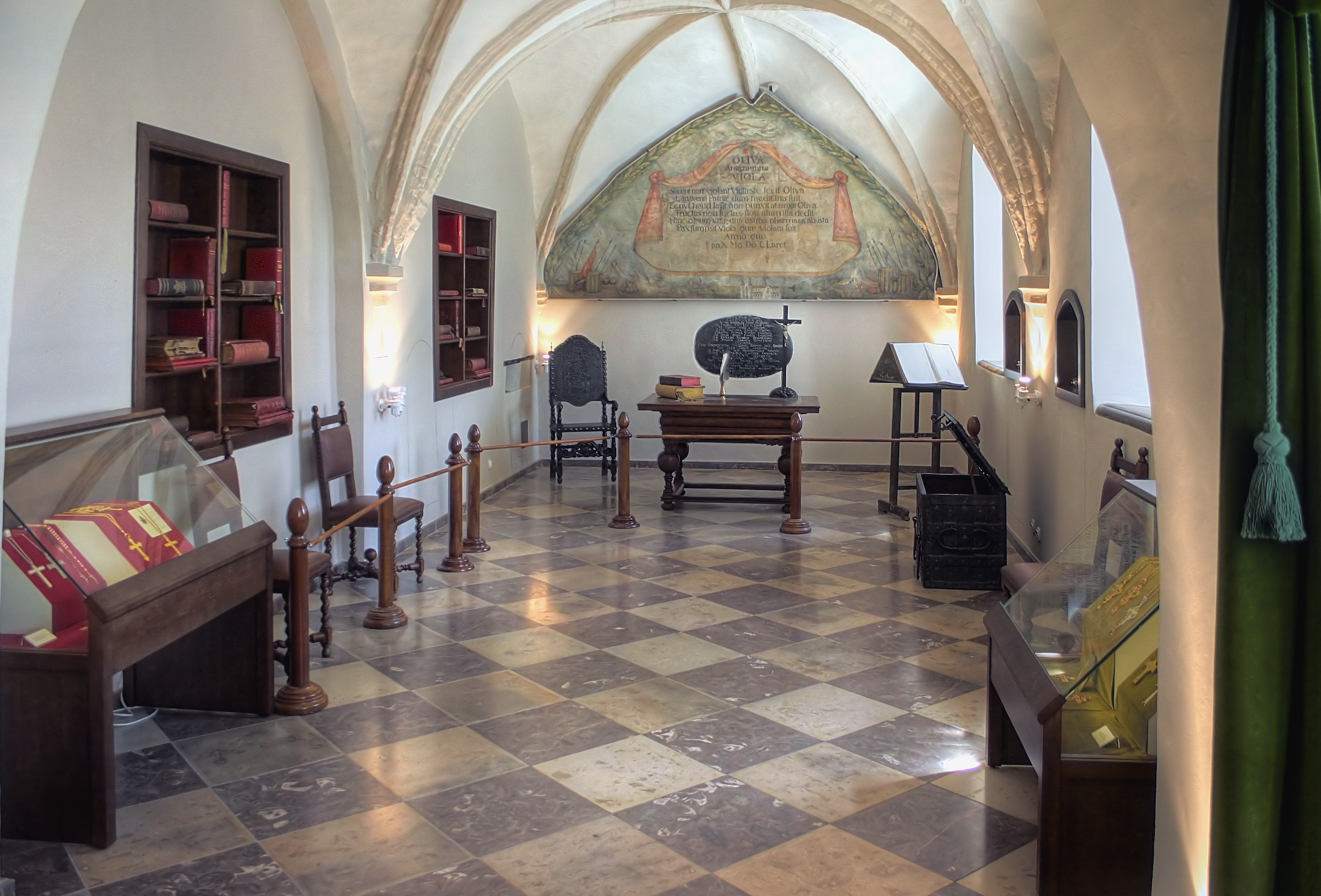 Room in the abbey of Oliva nearby Gdańsk. The treaty of Oliva was signed here.